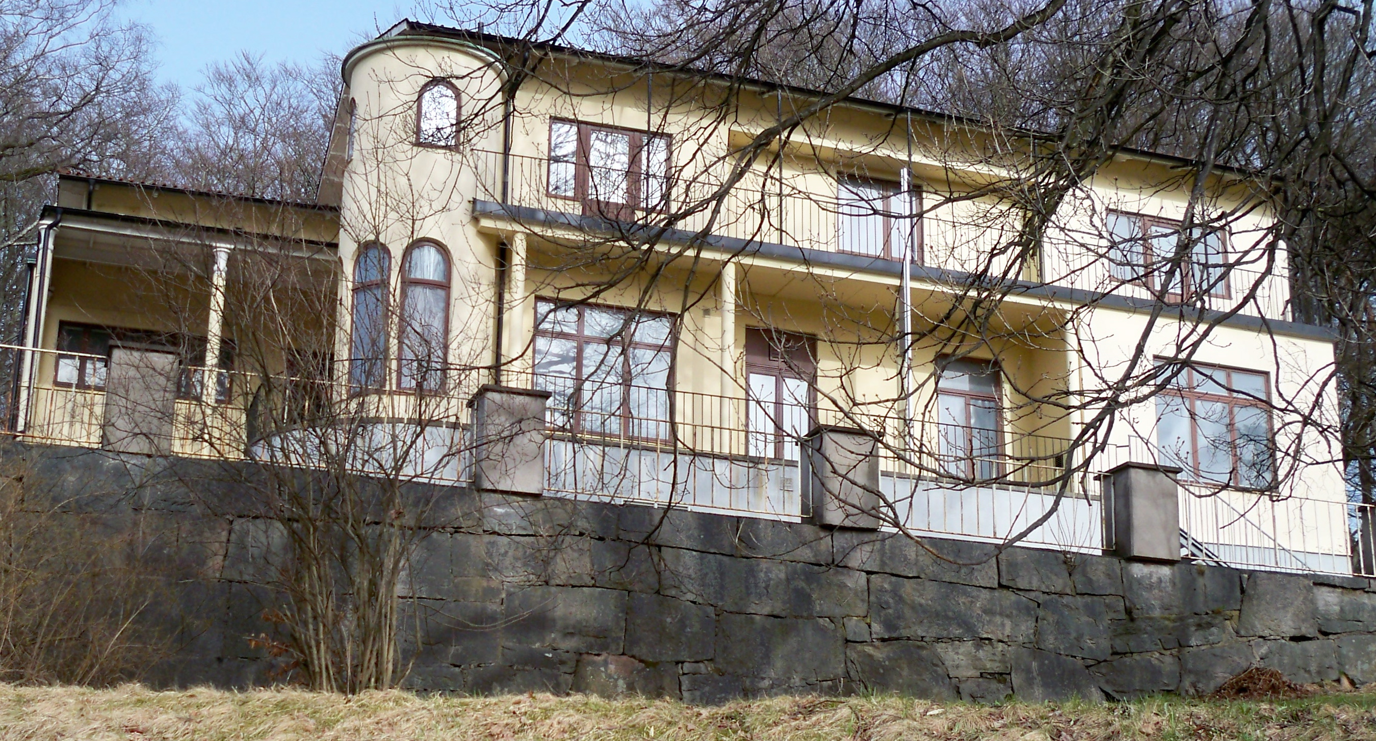 Rock Castle (in